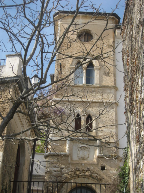 The tower of "Palazzo Castrucci" in Alvito, Italy.